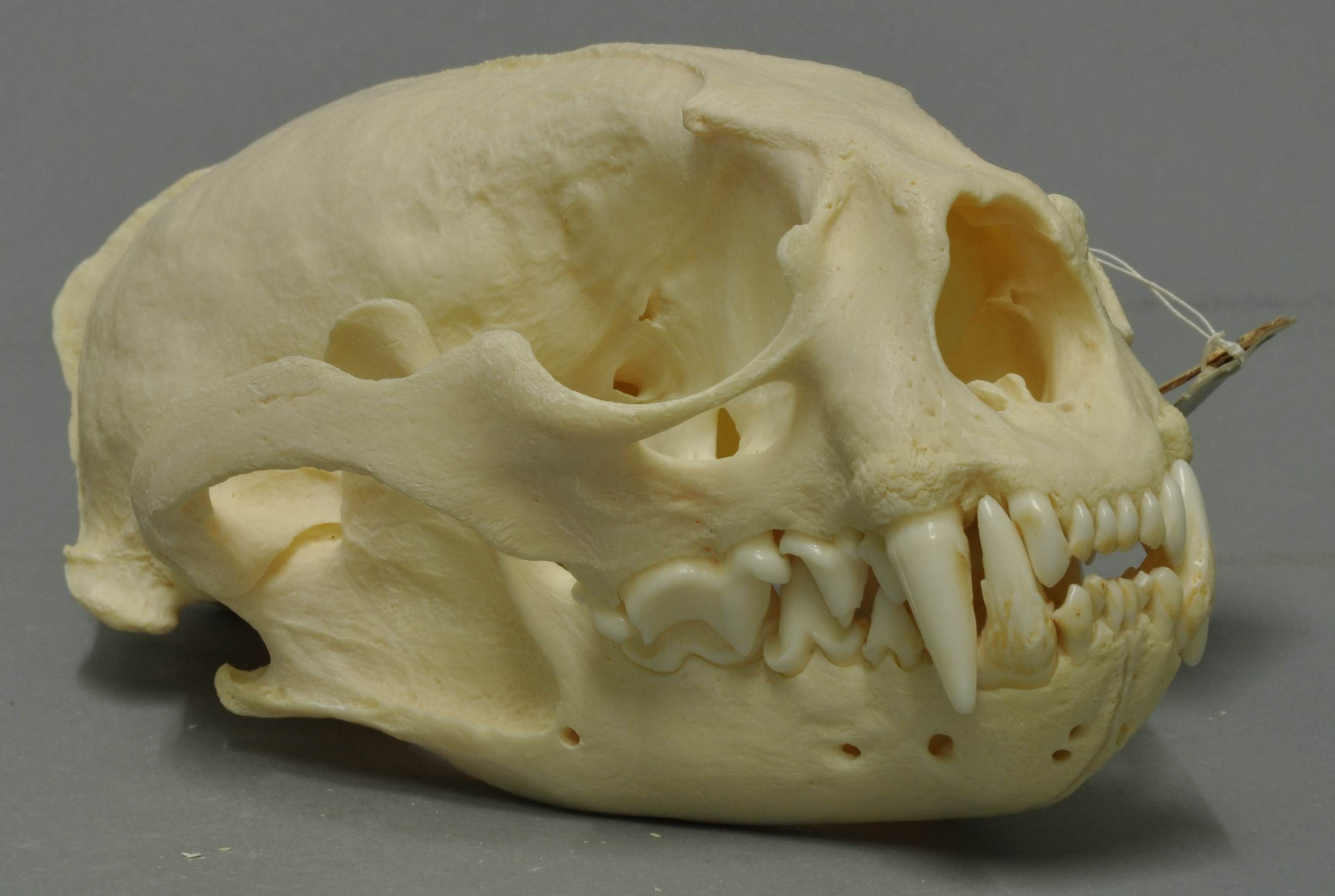 Giant otterPteronura brasiliensis, skull, Coll. Museum Wiesbaden